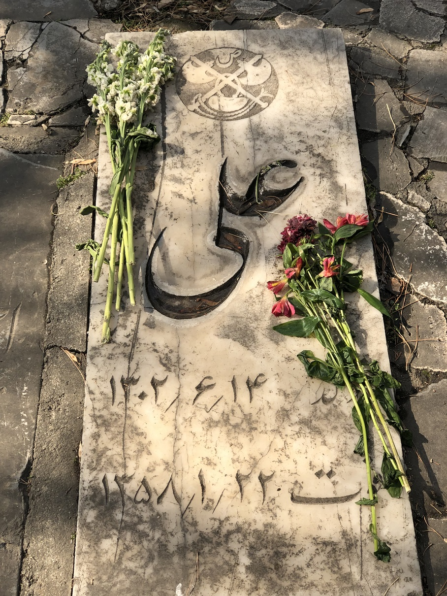 Zahir-od-Dowleh Cemetery